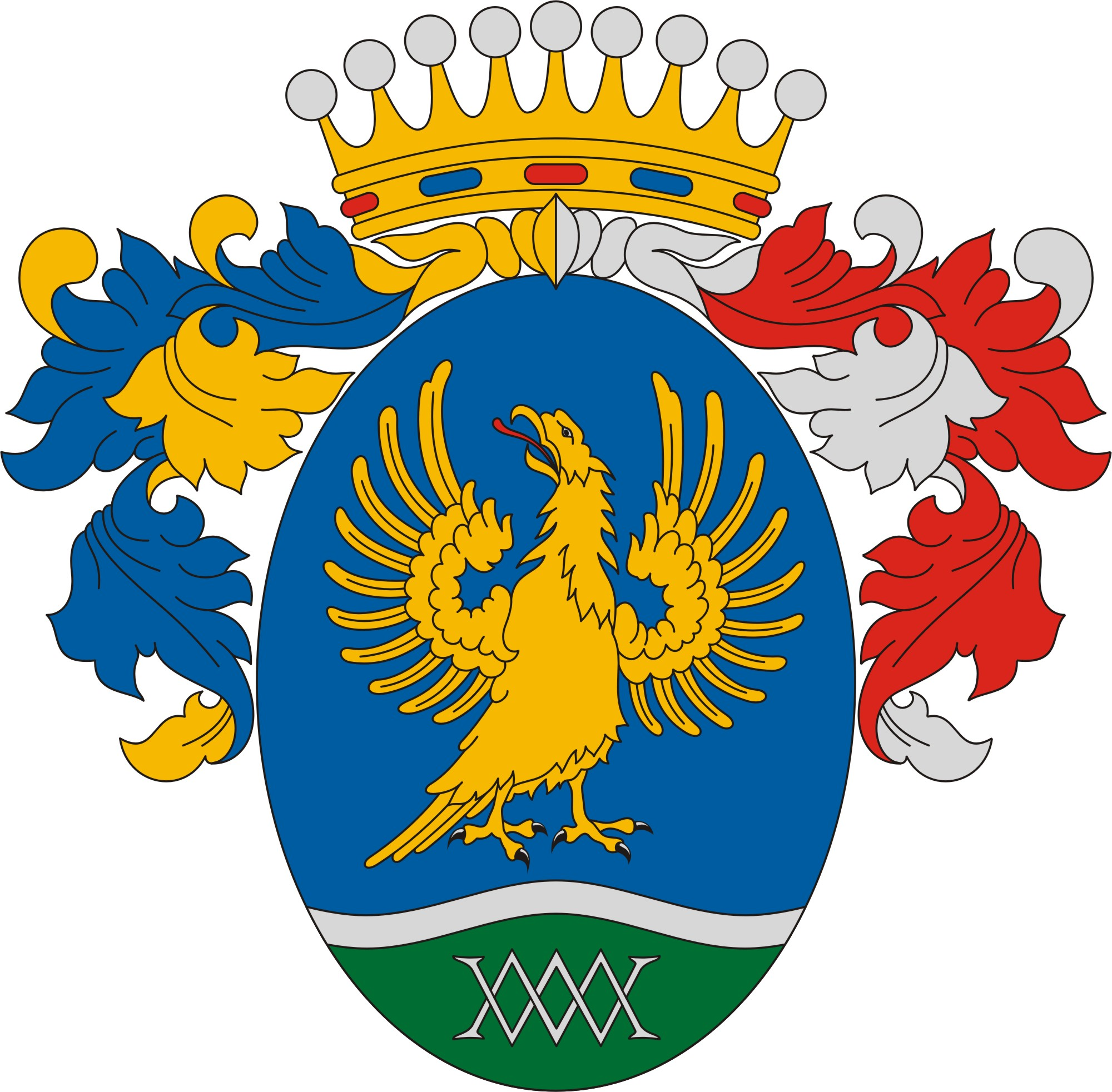 Coat of arms of Derekegyház, Hungary